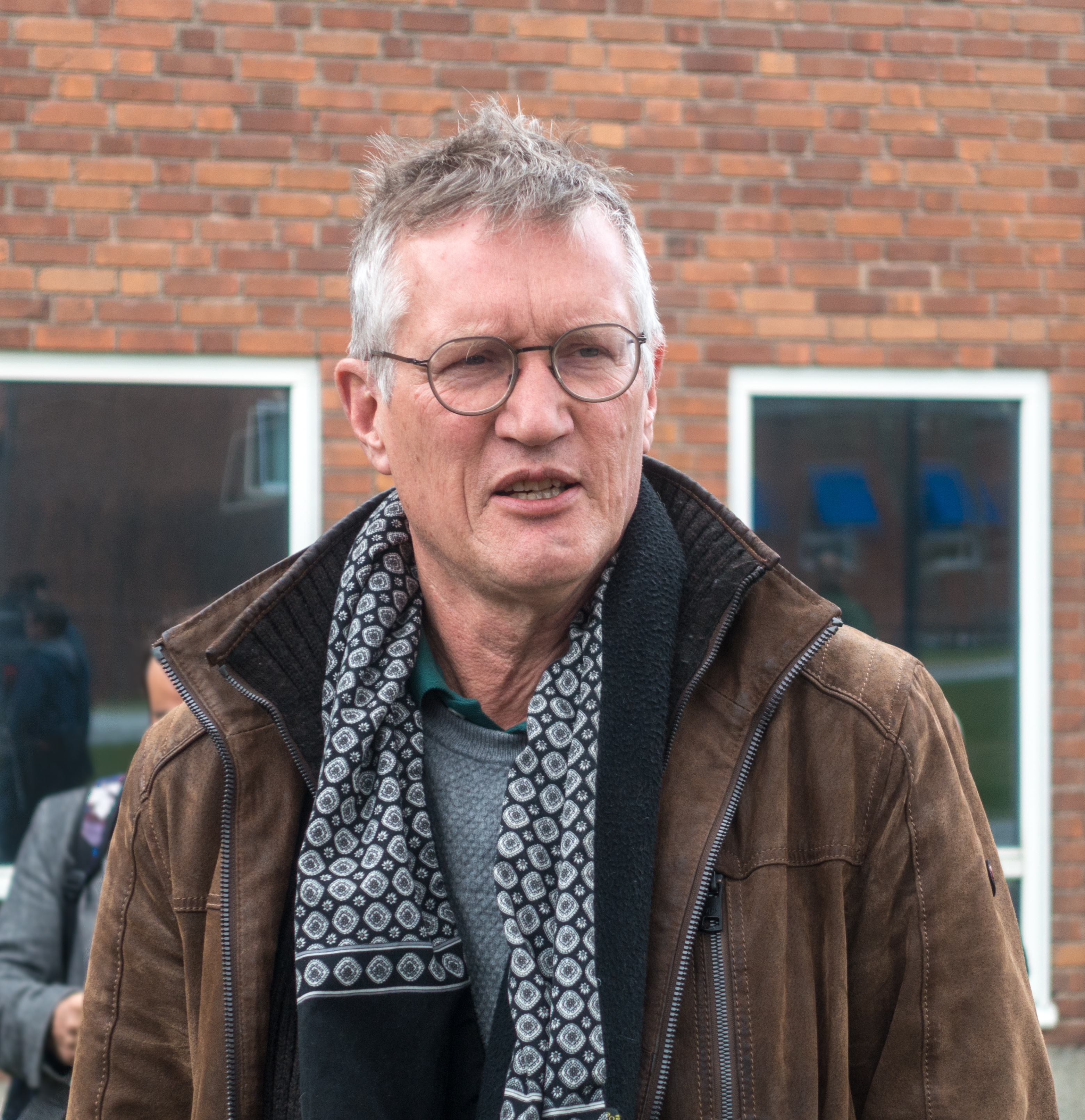 Anders Tegnell during the daily press conference outside the Karolinska Institute in Stockholm, Sweden.